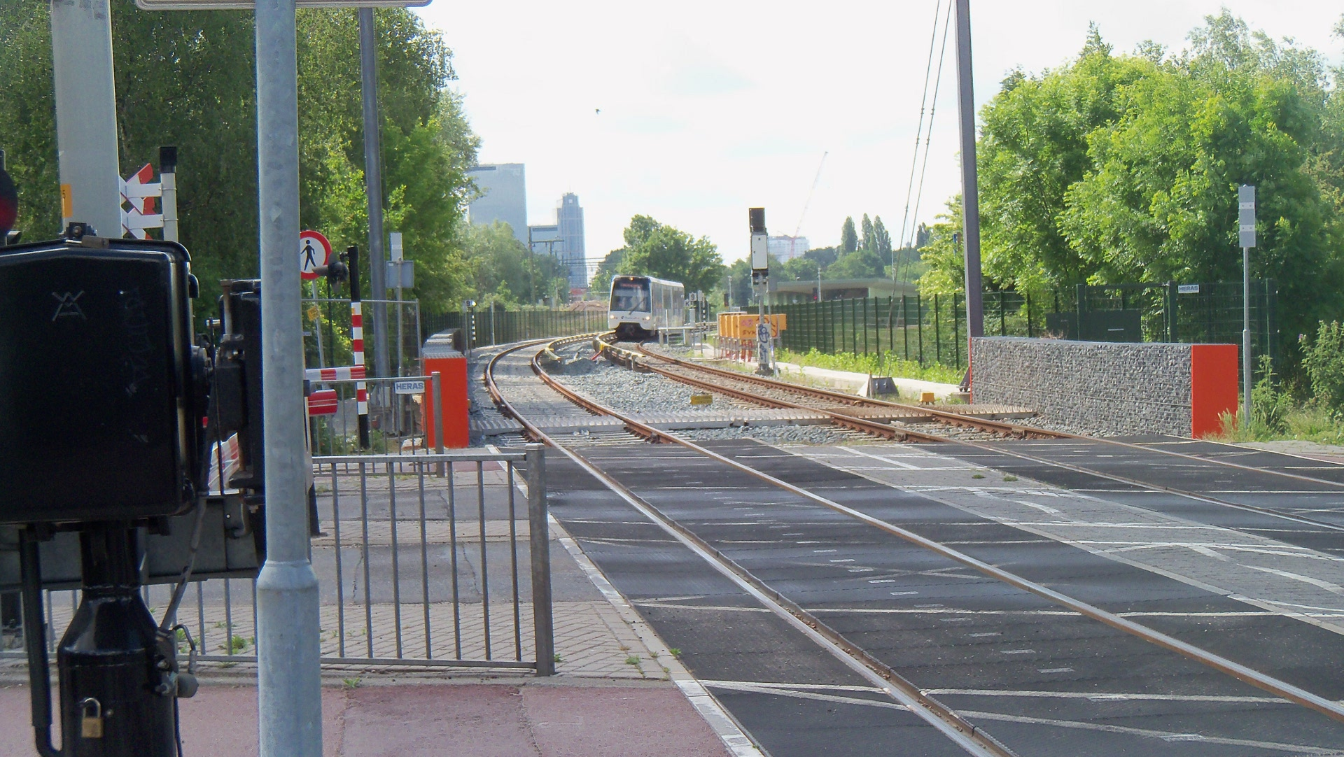 Railroad crossing Kleiweg on Rotterdam metro line E, the only crossing with third rail in the Rotterdam metro. The third rail stops shortly before the crossing and continues on the other side making sure the train is powerless while on the crossing.